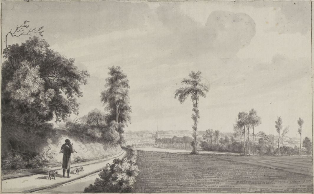 Drawing by Paul Vitzthumb of the Hertoginnedal priory